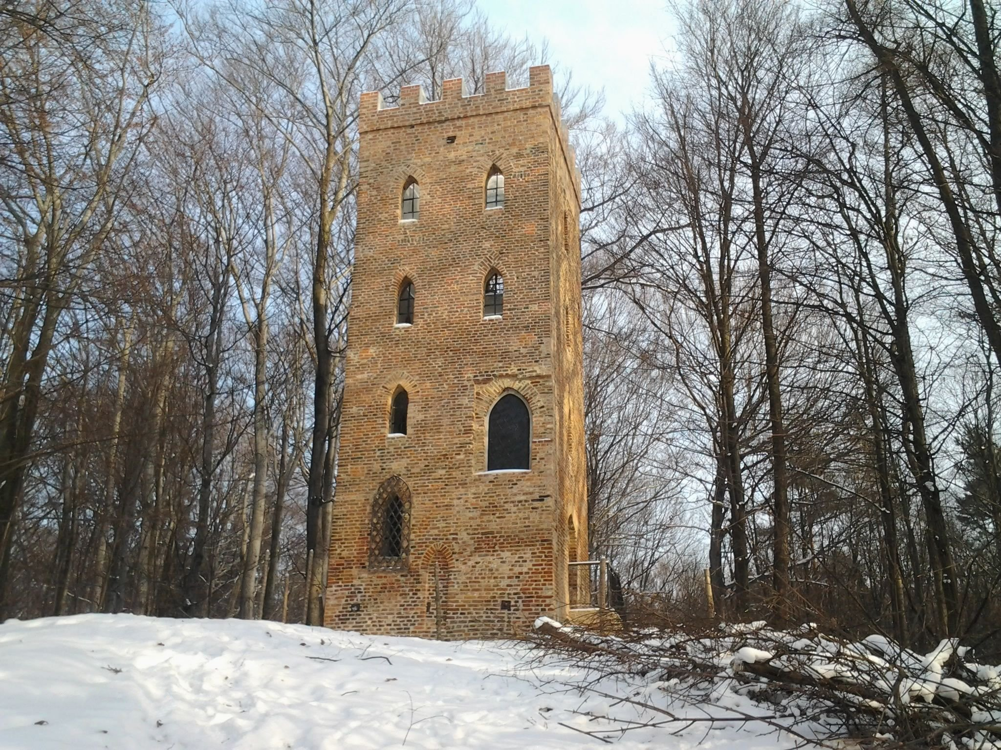 Romantic Tower (also known as : Knight's Tower) in Wodzisław Śląski.